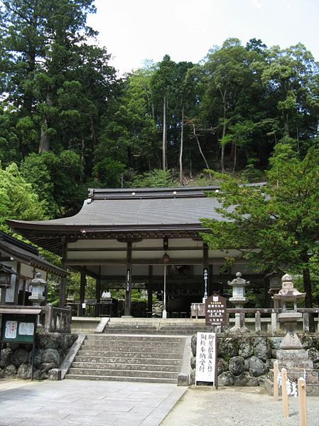 This is an image of the Niukawakami Shrine at Nara in Japan.